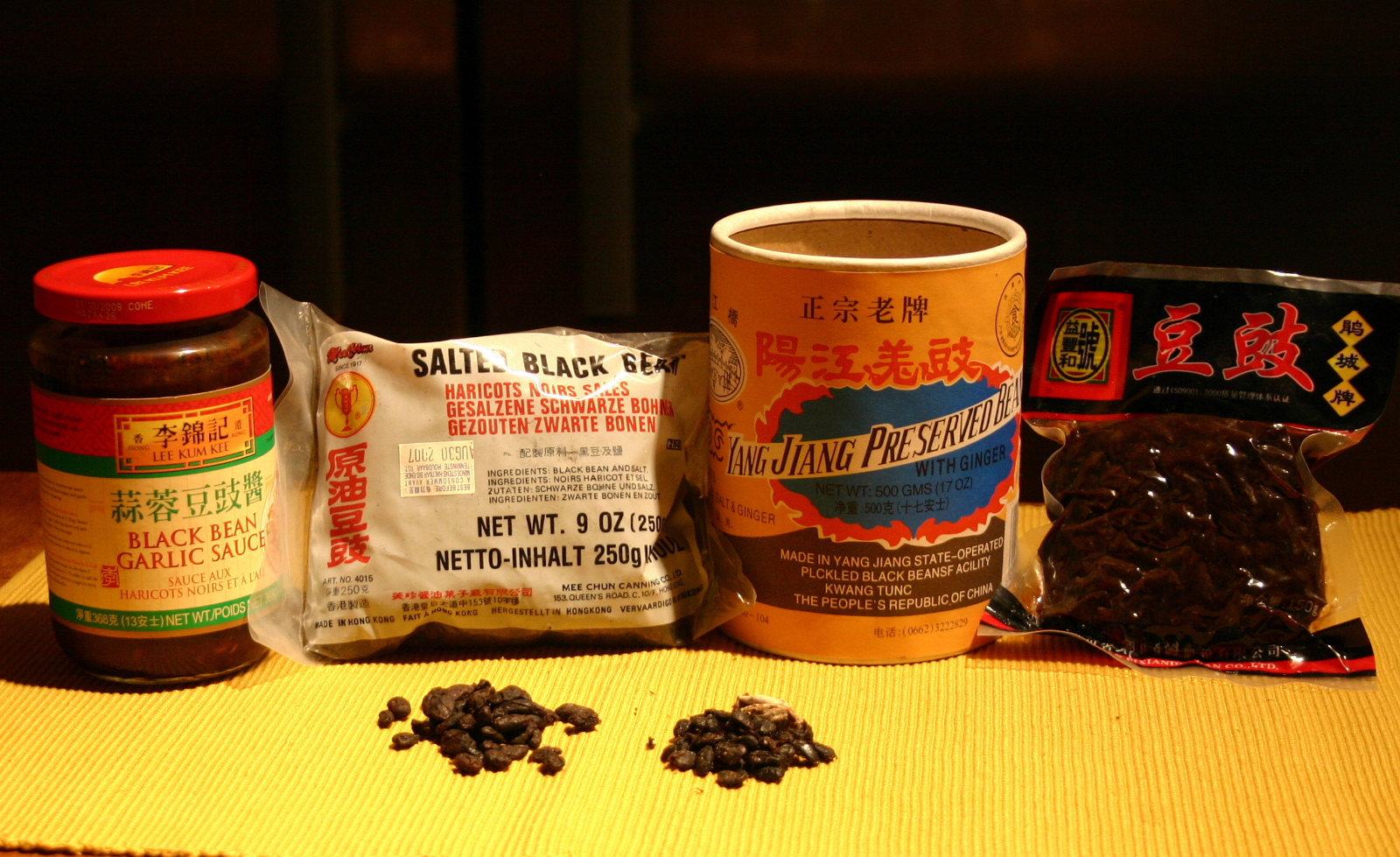 It took me a long time to find a brand I'm really happy with. The ones in the white plastic bag were always "just not it". (maybe because it says salted, not fermented??) Instead I even preferred the ready-to-go- blackbean sauce (on the left). Then I discovered these moist black beans (on the right). They were okay. Still not brilliant, but okay. Disadvantage is that you or that I want to store them in te fridge once you've opened the package. But at least the steamed oysters with black beans, soy and spring onion was nice! But lately I've tried those Yang Jiang Preserved Black Beans with Ginger. And I looooove those. I just quickly rinse them with cold water and they are ready to use. Now I'm in love with this recipe for steamed salmon with black beans And I'll have to steam some oysters soon!